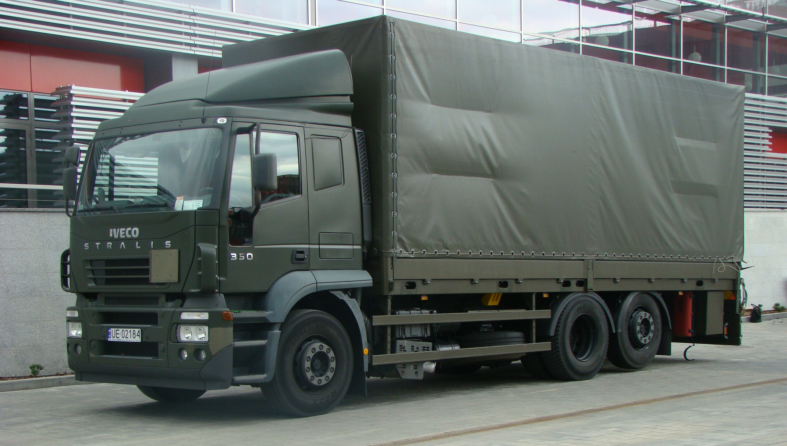 Iveco Stralis 350 truck of the Polish Army. MSPO 2013.